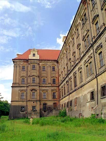 The building of the monastery's konvent in Lubiąż.